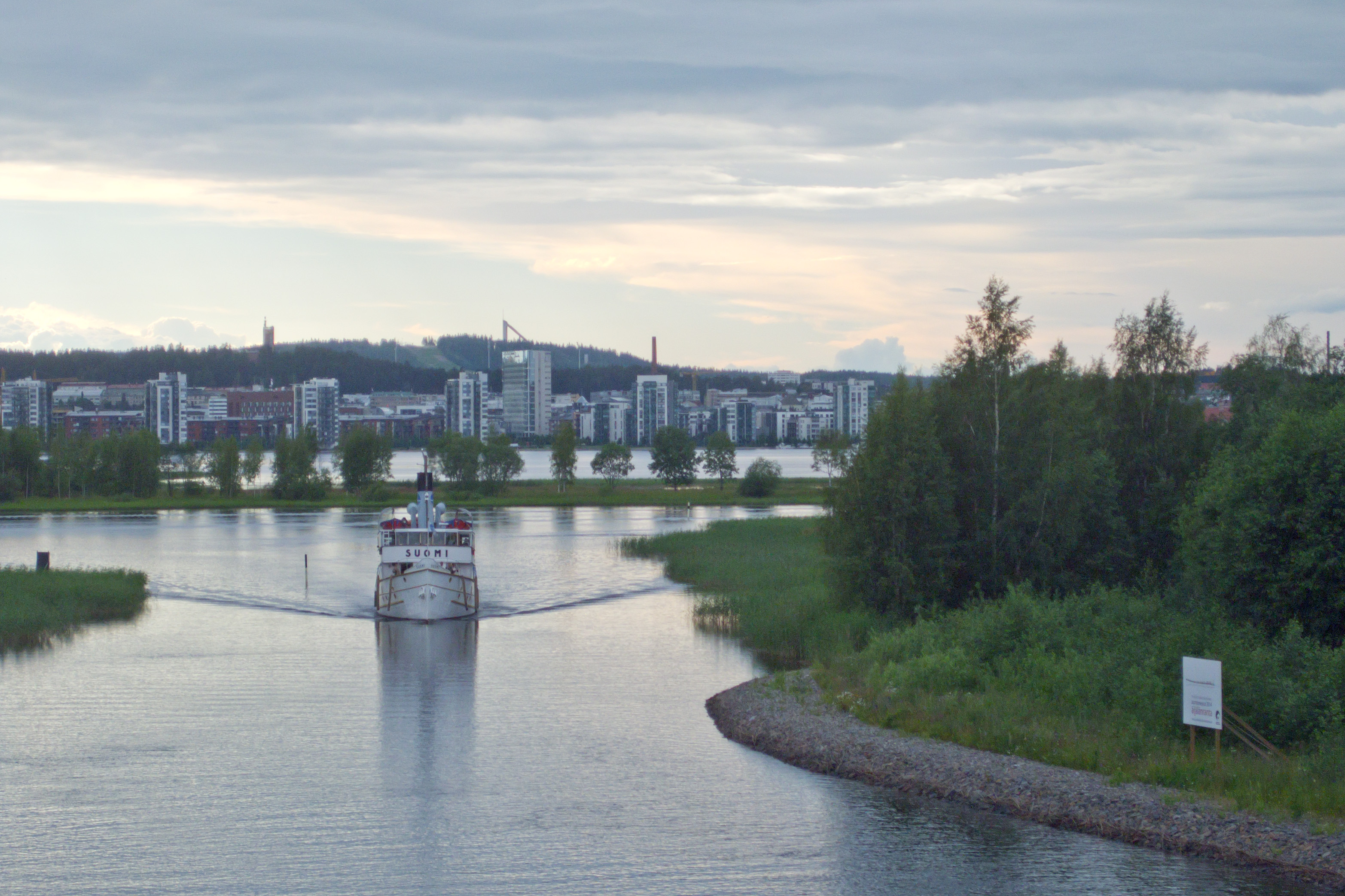 S/S Suomi approaching Äijälänsalmi, Jyväskylä, Finland.